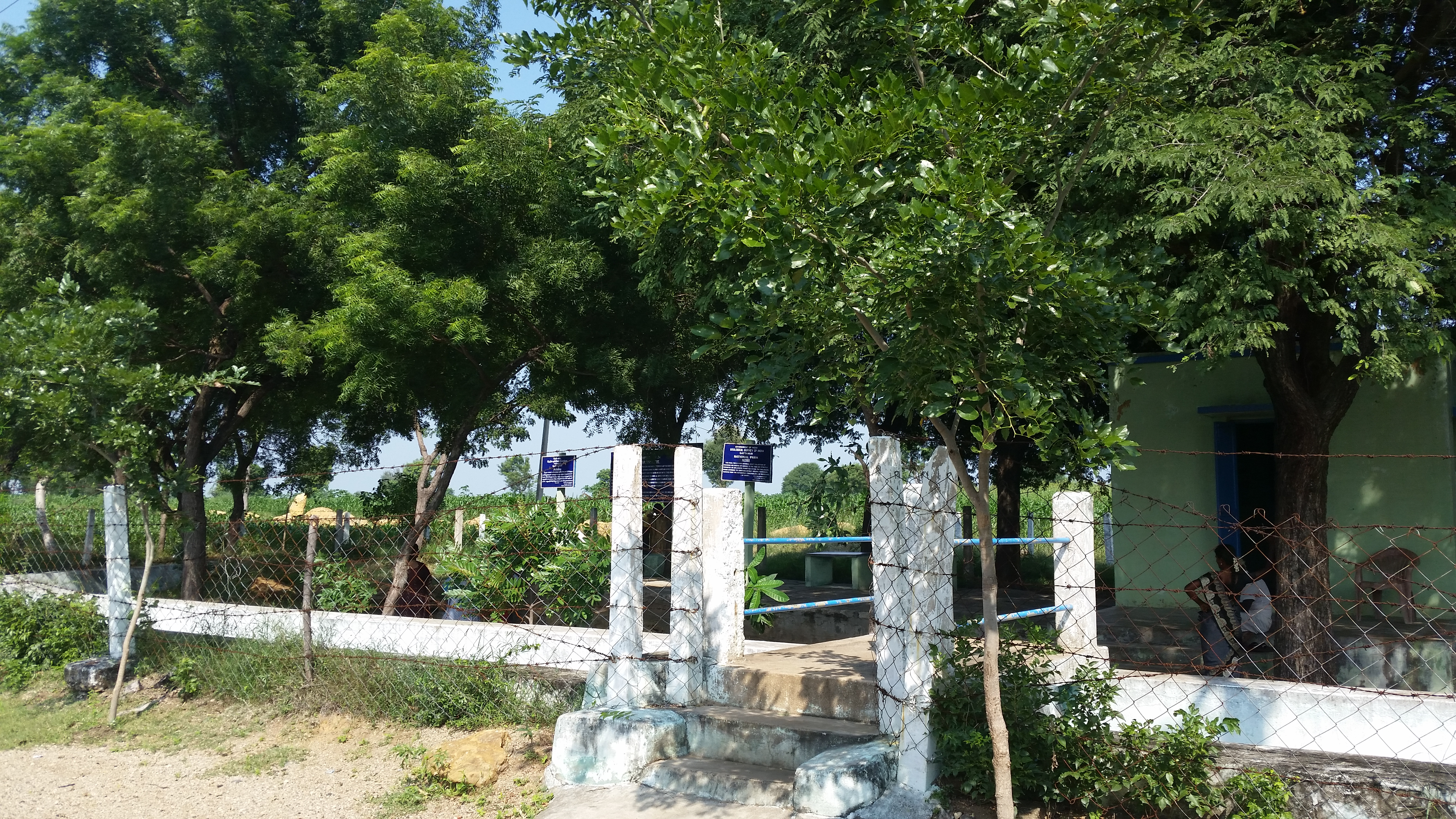 Sathanur_Fossil_Entrance